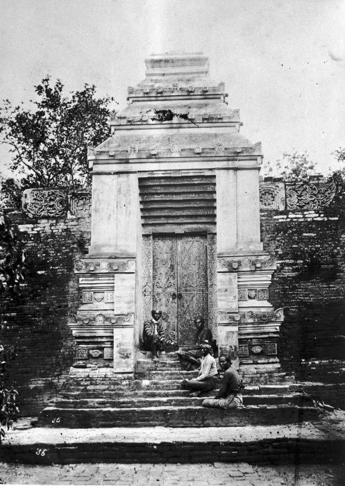 Main Door/Gate of the Sultans graves at Kota Gede (Pasar Gede), the old Mataram graveyard south east of Yogjakarta